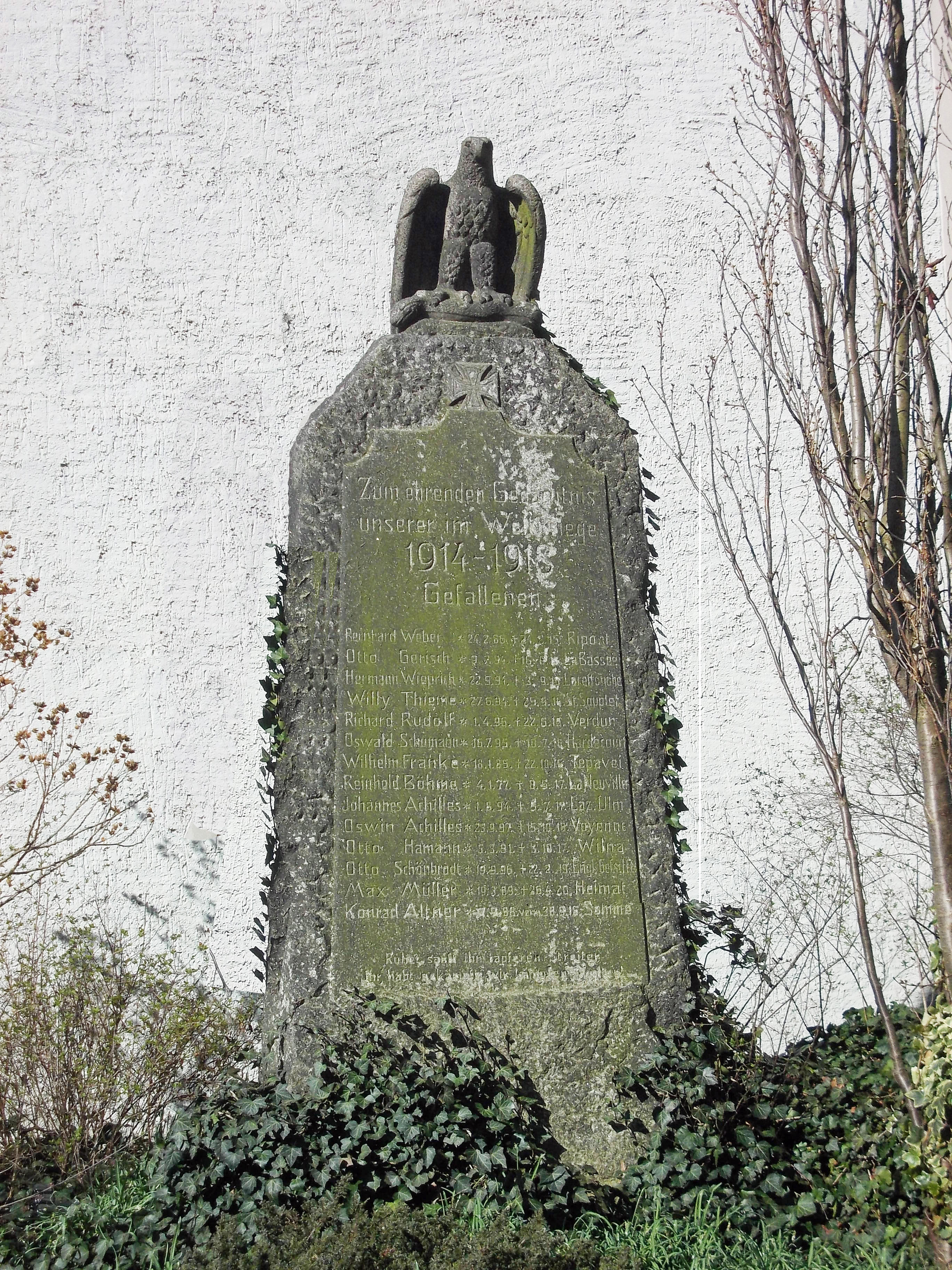 World War I memorial in Göbschelwitz (Leipzig, Saxony)